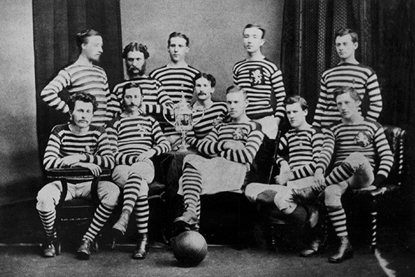 Queen's Park Football Club players posing. The club is the oldest of Scotland.